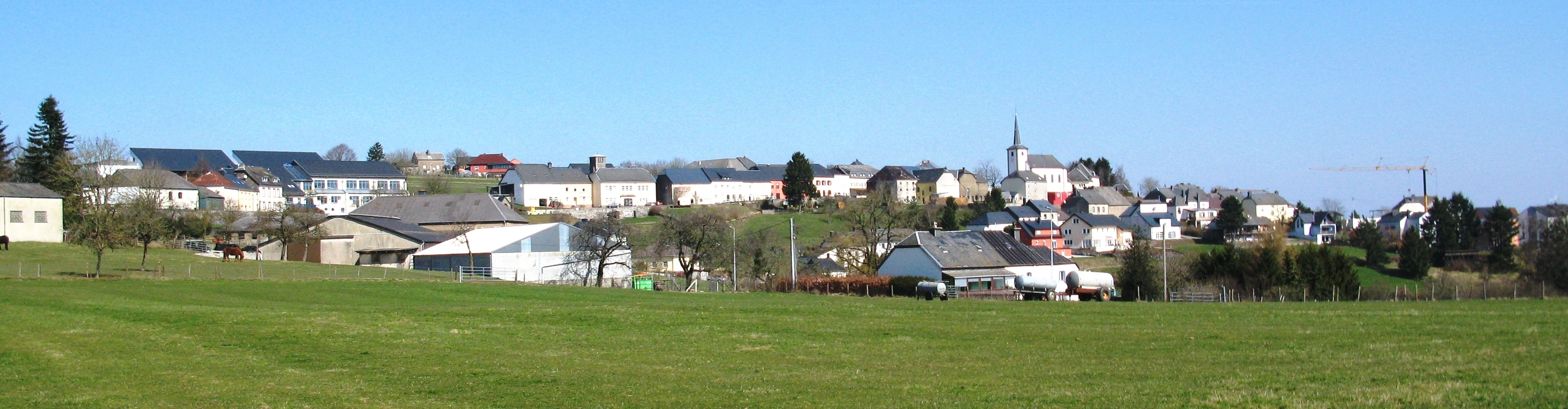 Village of Bourscheid seen from the hill Béchel.